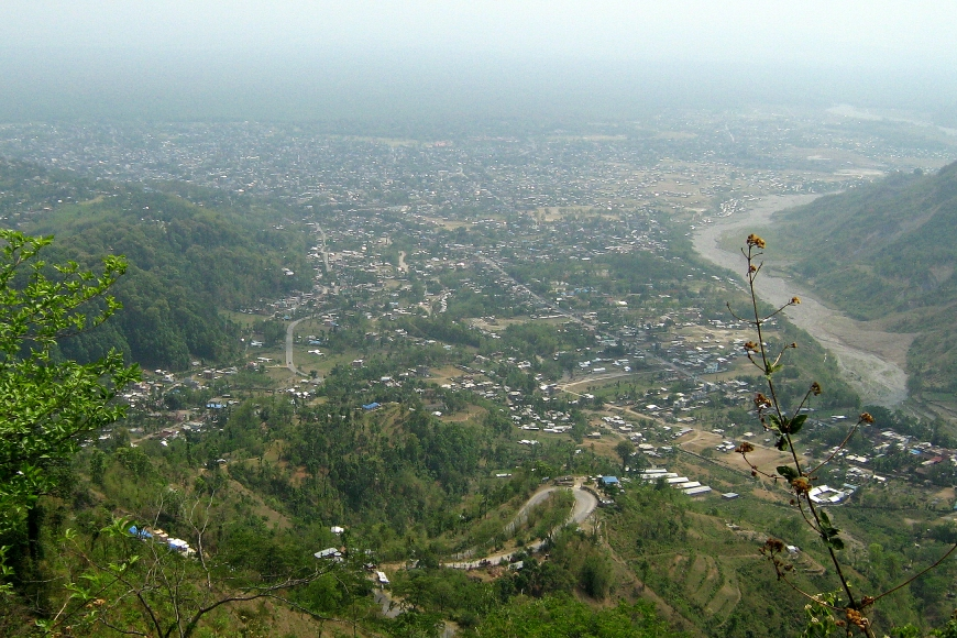 The Image was taken from the Way to Bhedetar. Kaushik Mitra took the Photograph. Image was taken on May 2008.